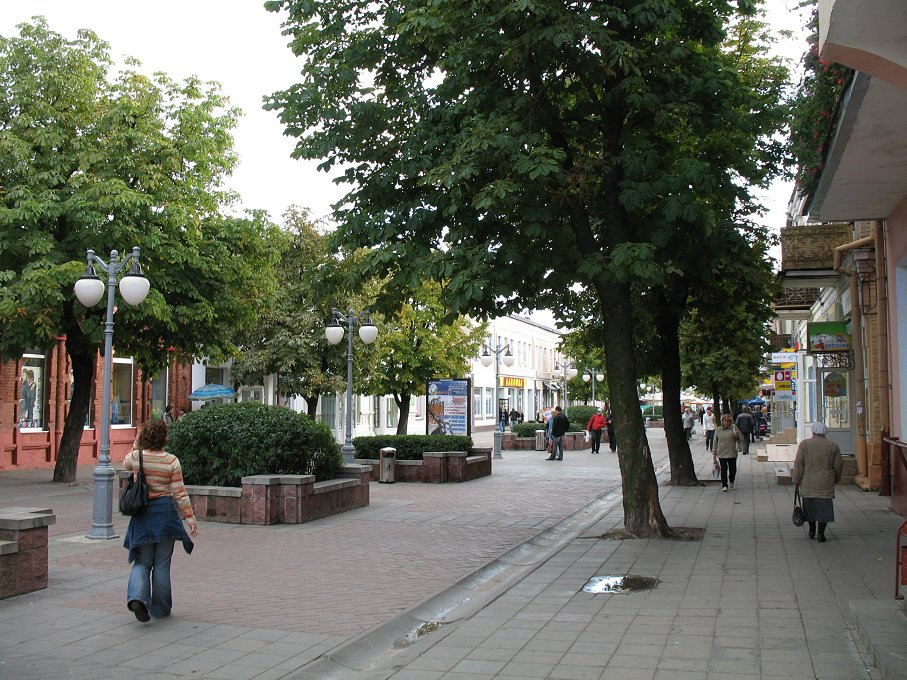 Late Sunday afternoon view of the pedestrian street in the city of Bobruisk, Belarus.